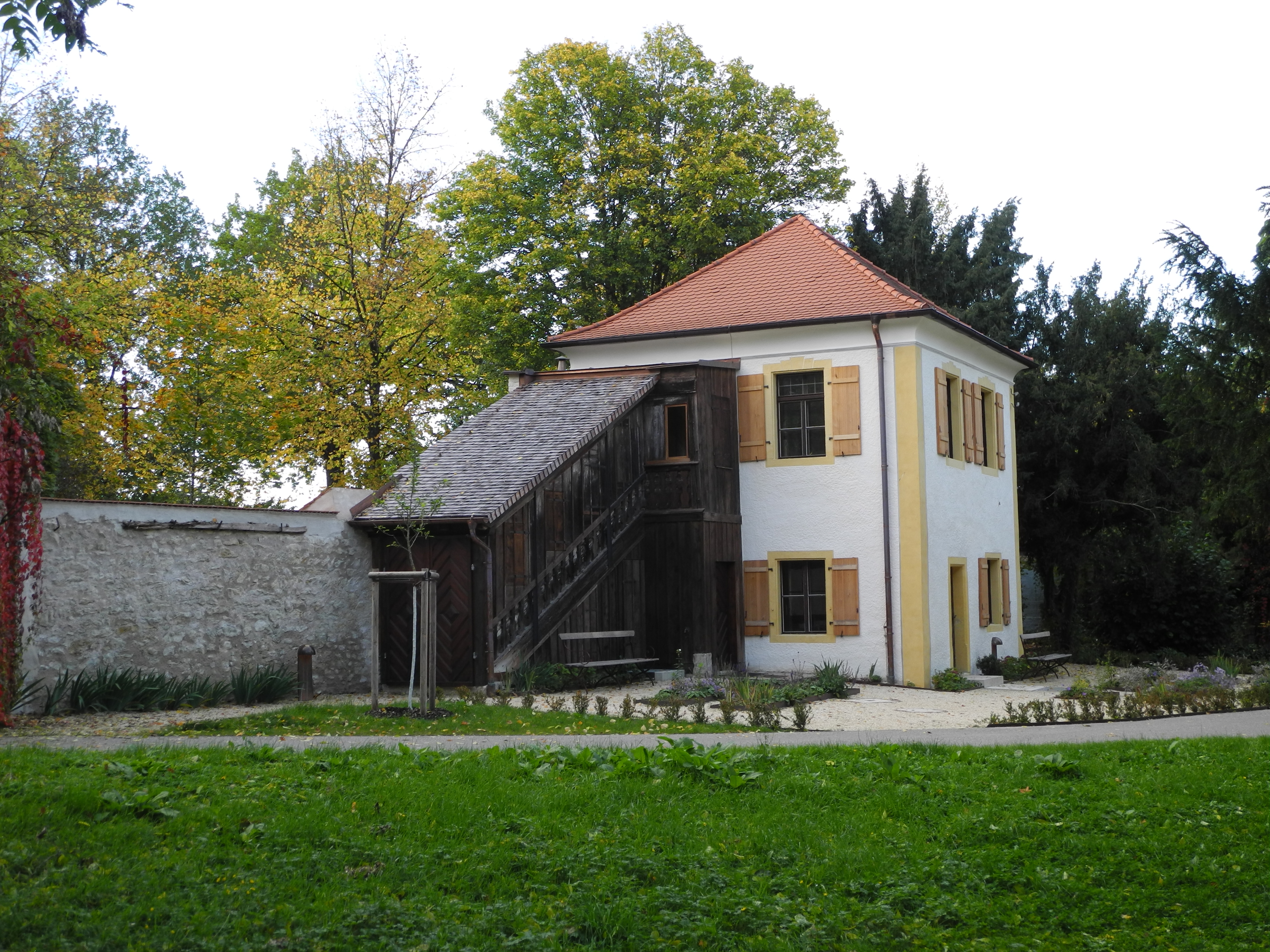 Salettl Regensburg Germany